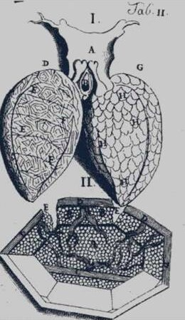 Table from "De pulmonibus observationes anatomicae" (1661). Part I shows a frog's lung seen from the outside on the left. On the right the lung is cut longitudinally. Part II shows a microscopic cut of the alveolus of a mammal's lung, with blood vessels.